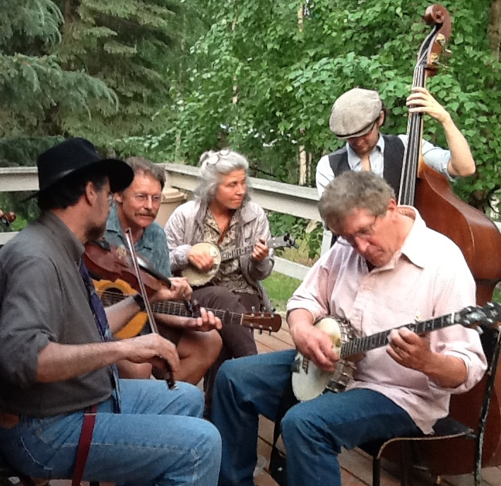 Lost Dog String Band jamming at the Ester Fourth of July potluck